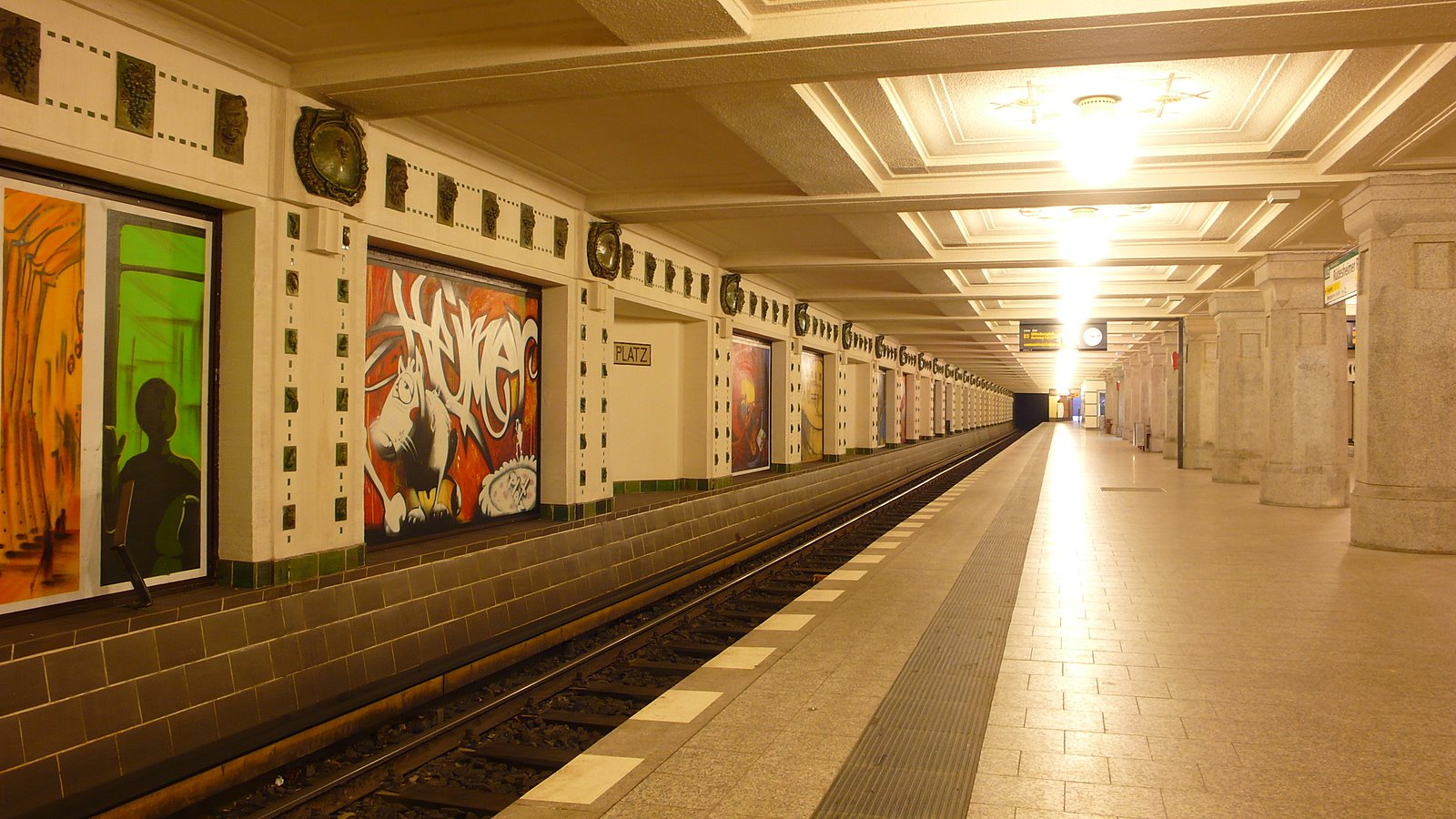 Ruedesheimerplatz subway